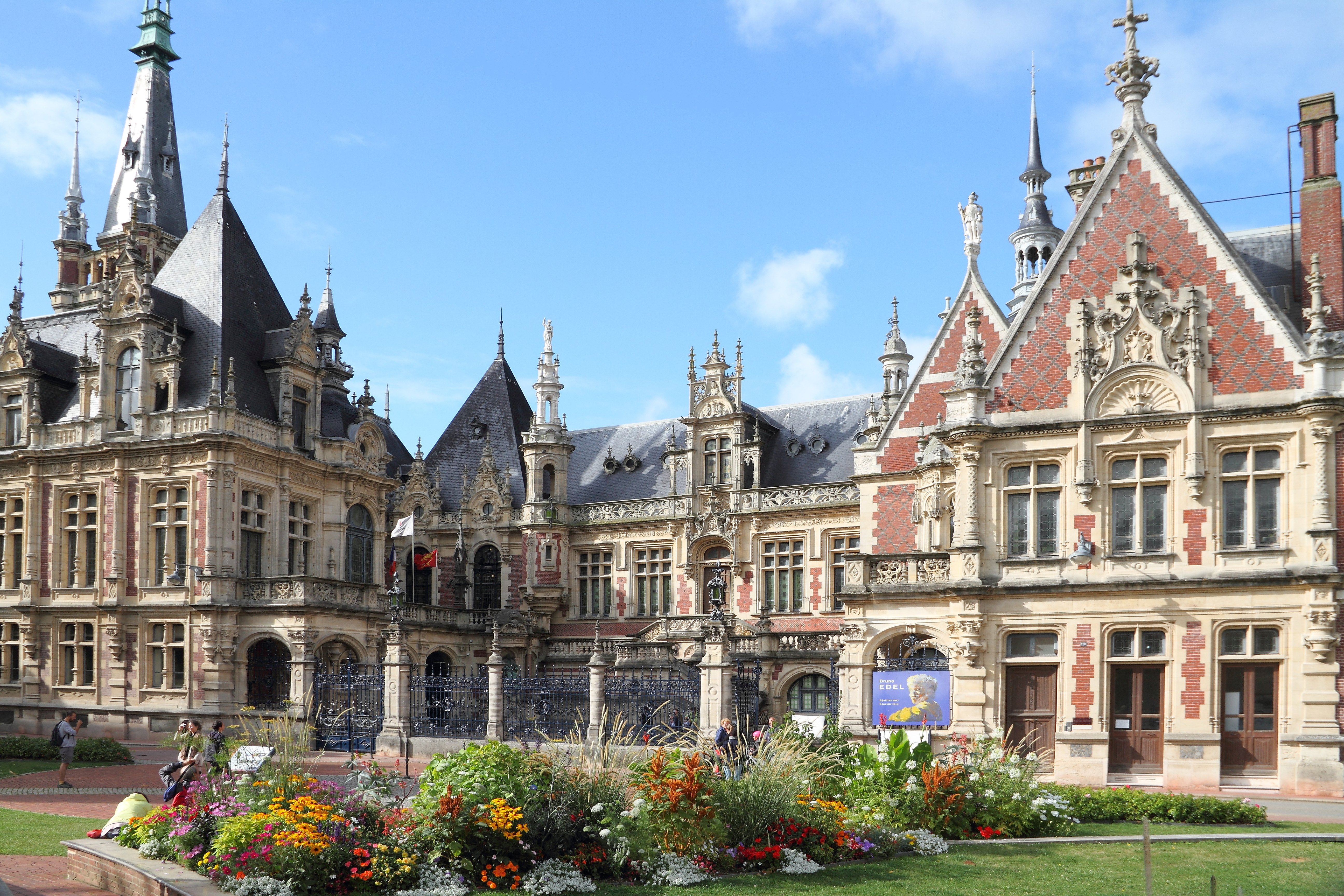 Museum of arts and distillery Palais Bénédictine in Fécamp.